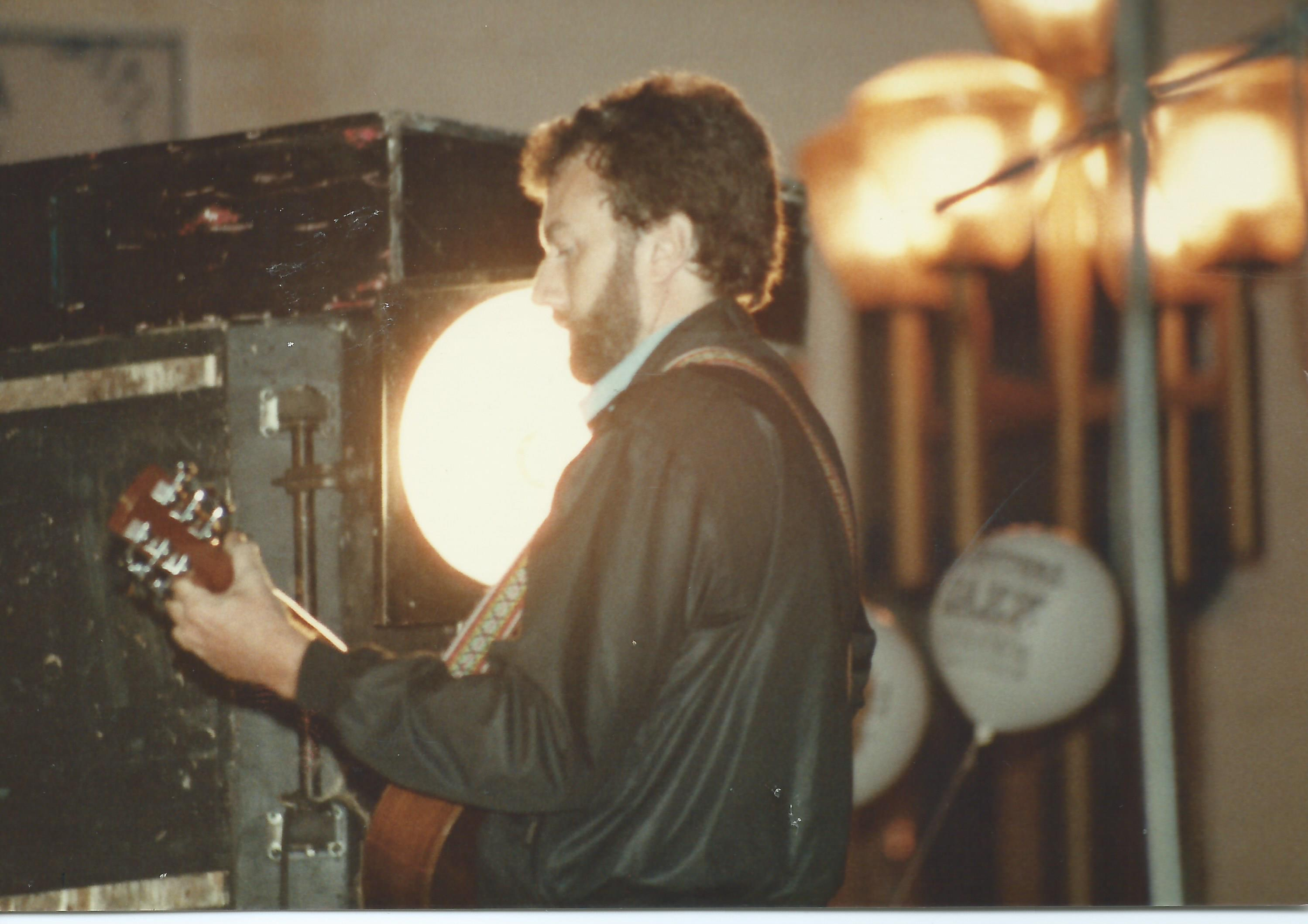 Oliver Whitehead on the outdoor stage, St. Denis Street, Montreal Jazz Festival 1983